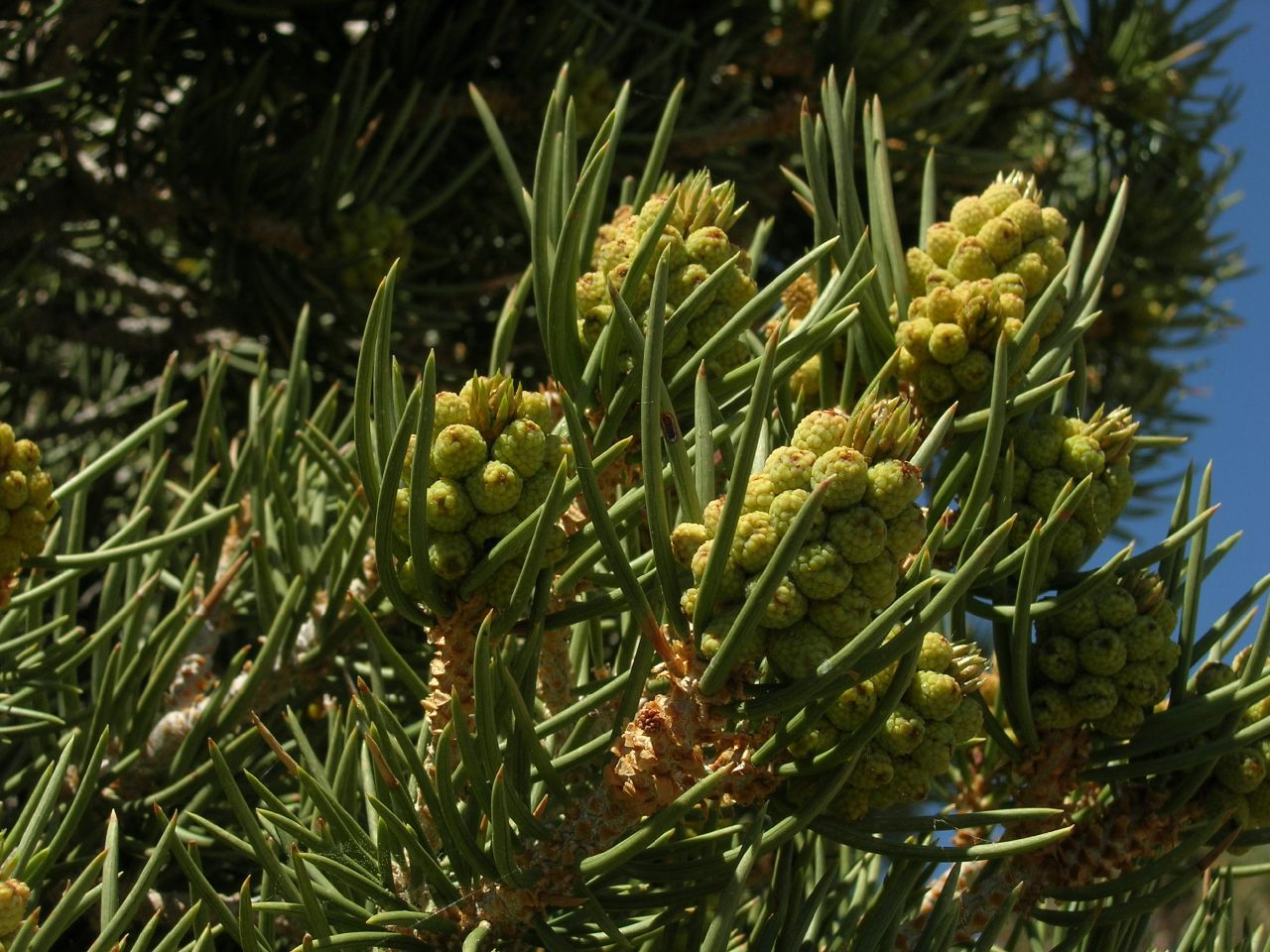 Pinus monophylla pollen cones, Telescope Peak, Inyo County, California